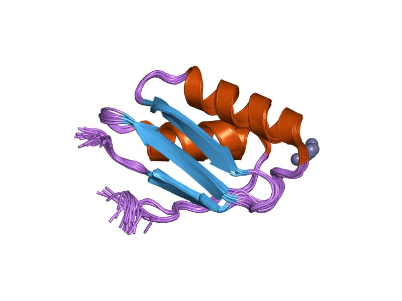 Cartoon representation of the molecular structure of protein registered with 1mwz code.